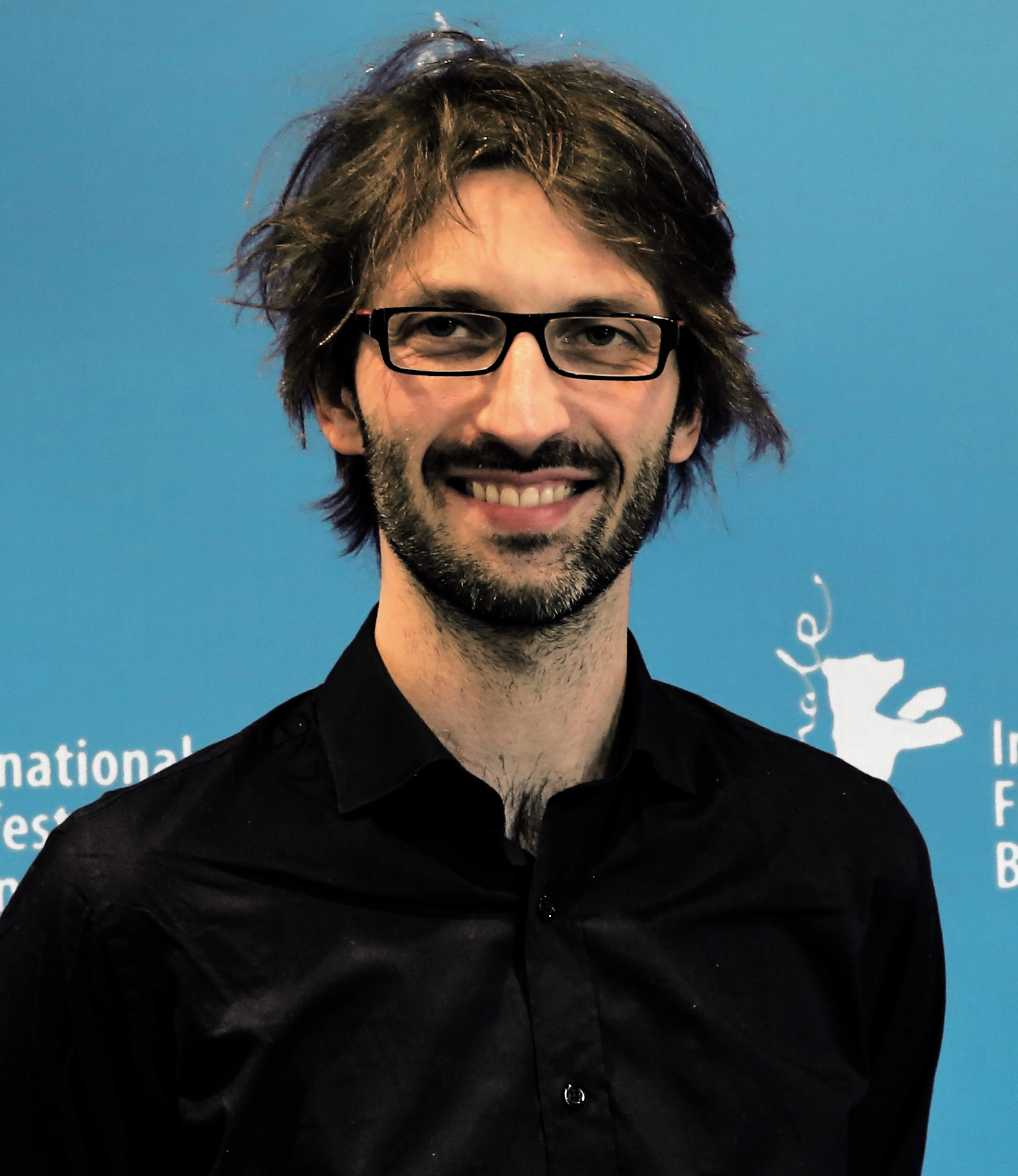 Stefano Lentini at the premiere of "The Grandmaster", Berlinale Festival 2013